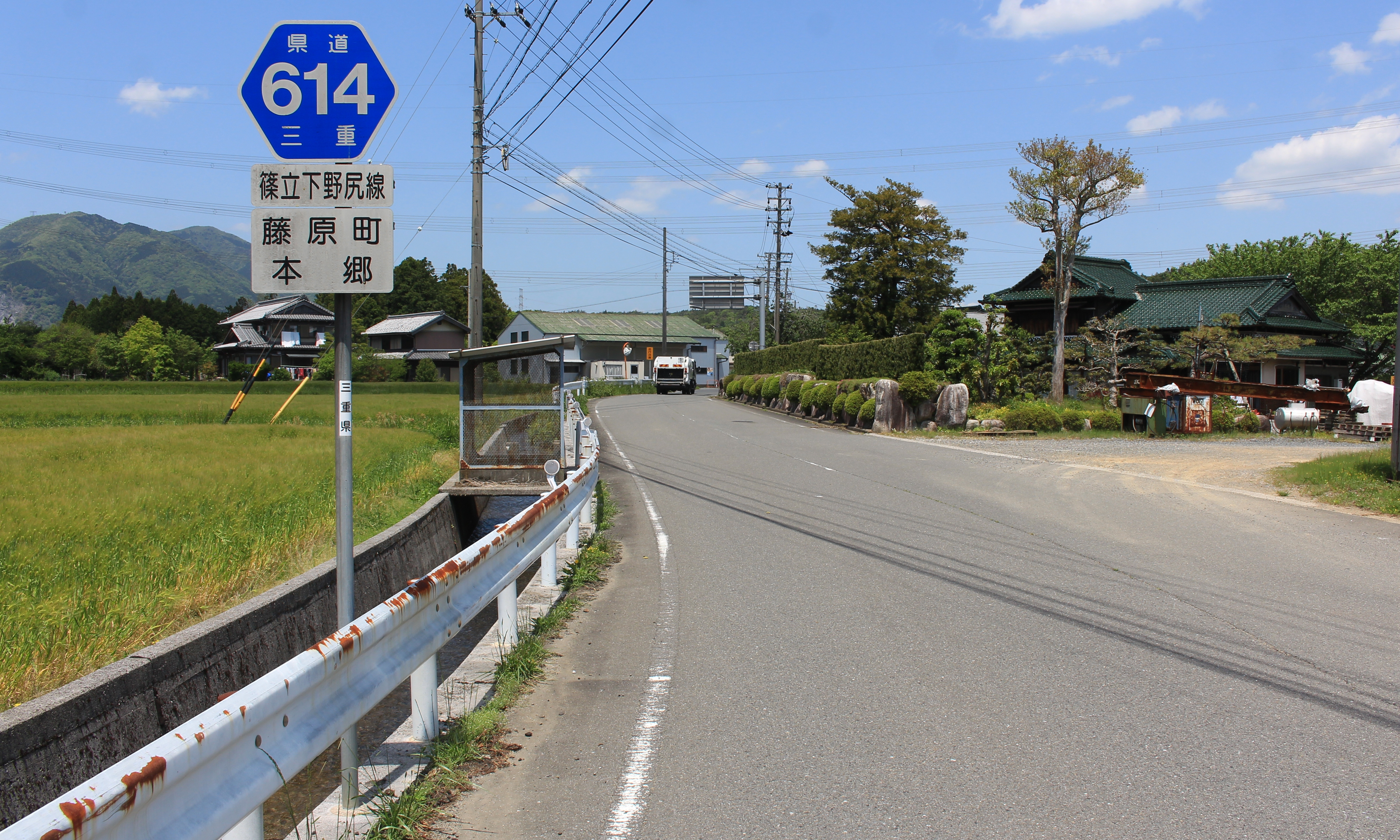 Mie Prefectural Road Route 614 in Hongo, Fujiwara, Inabe, Mie prefecture, Japan.